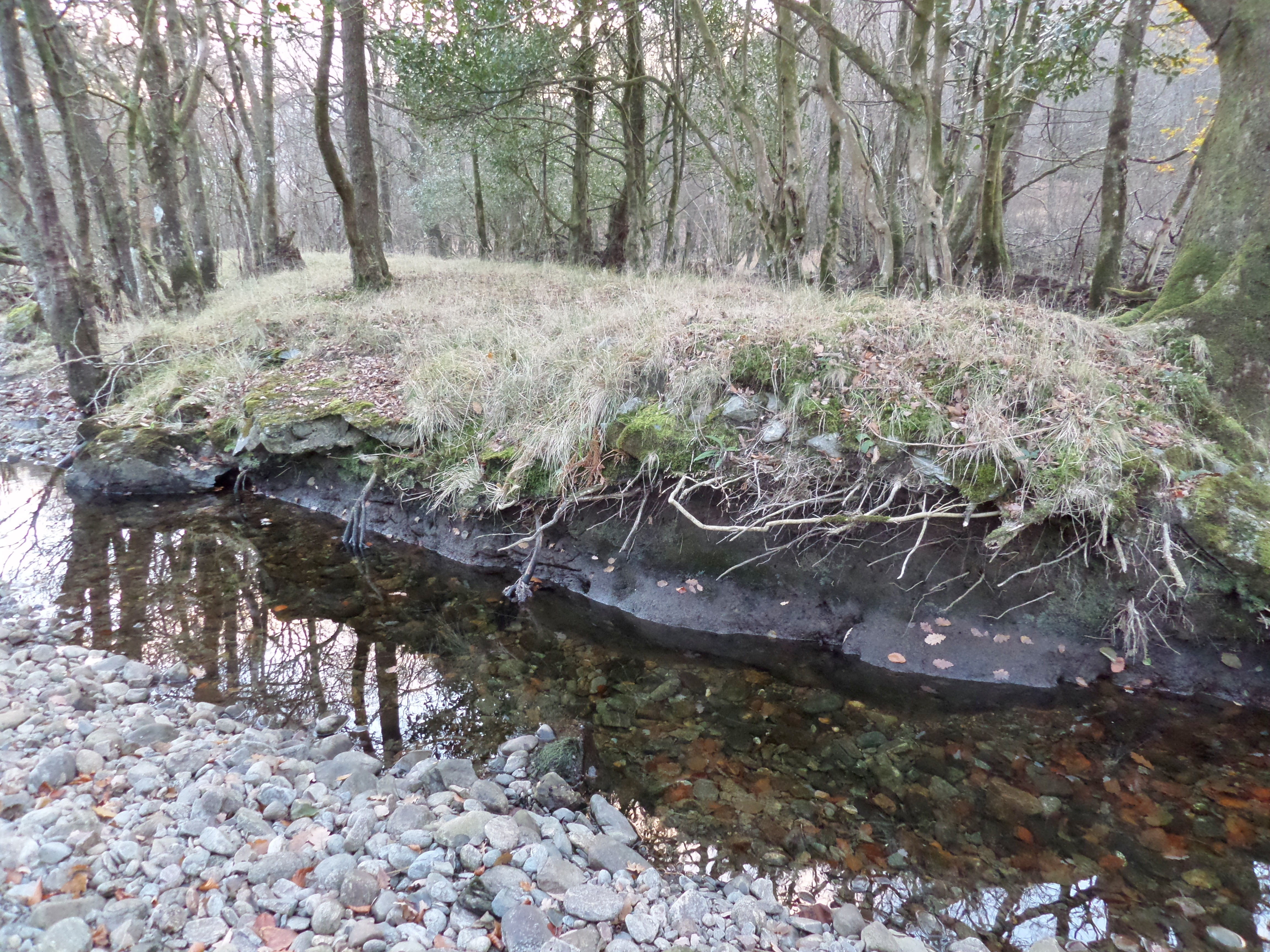 Inverarnan Canal dam and sluice from the northern side near the Garabal Basin, Stirling, Scotland.